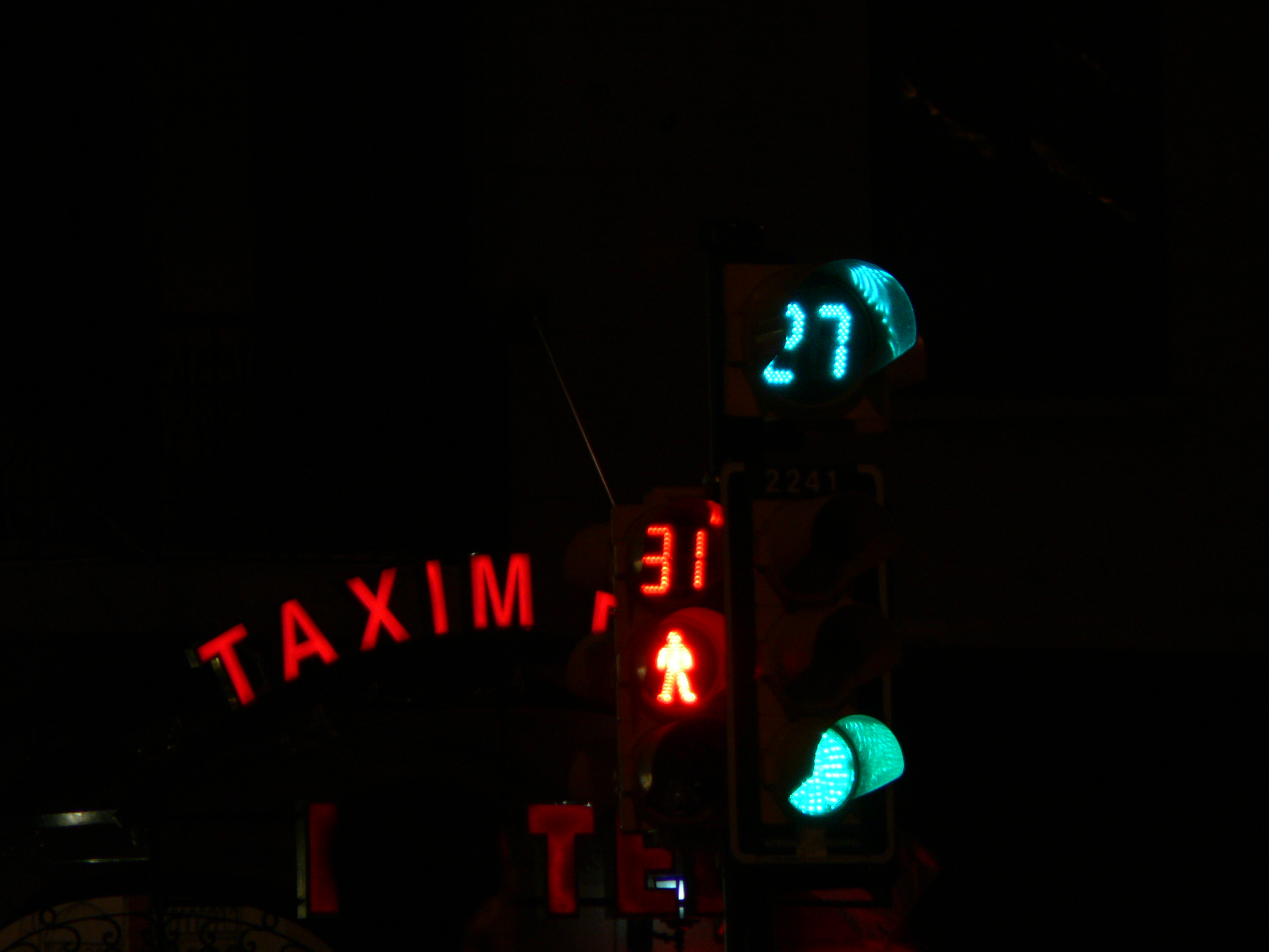 Traffic lights with countdown, Taksim Square, Istanbul